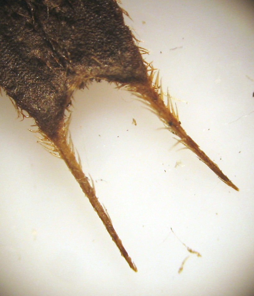 Teeth of Bidens tripartita under stereomicroscope